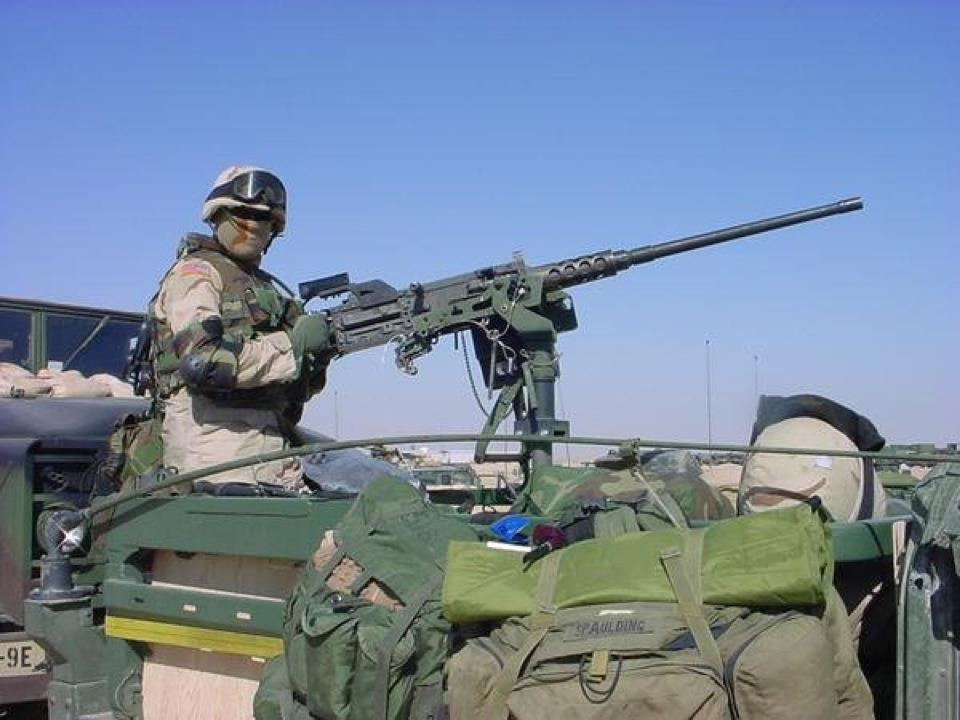 1PLT BRAVO 9TH EN BN CROSSING THE BORDER OIF II 2004